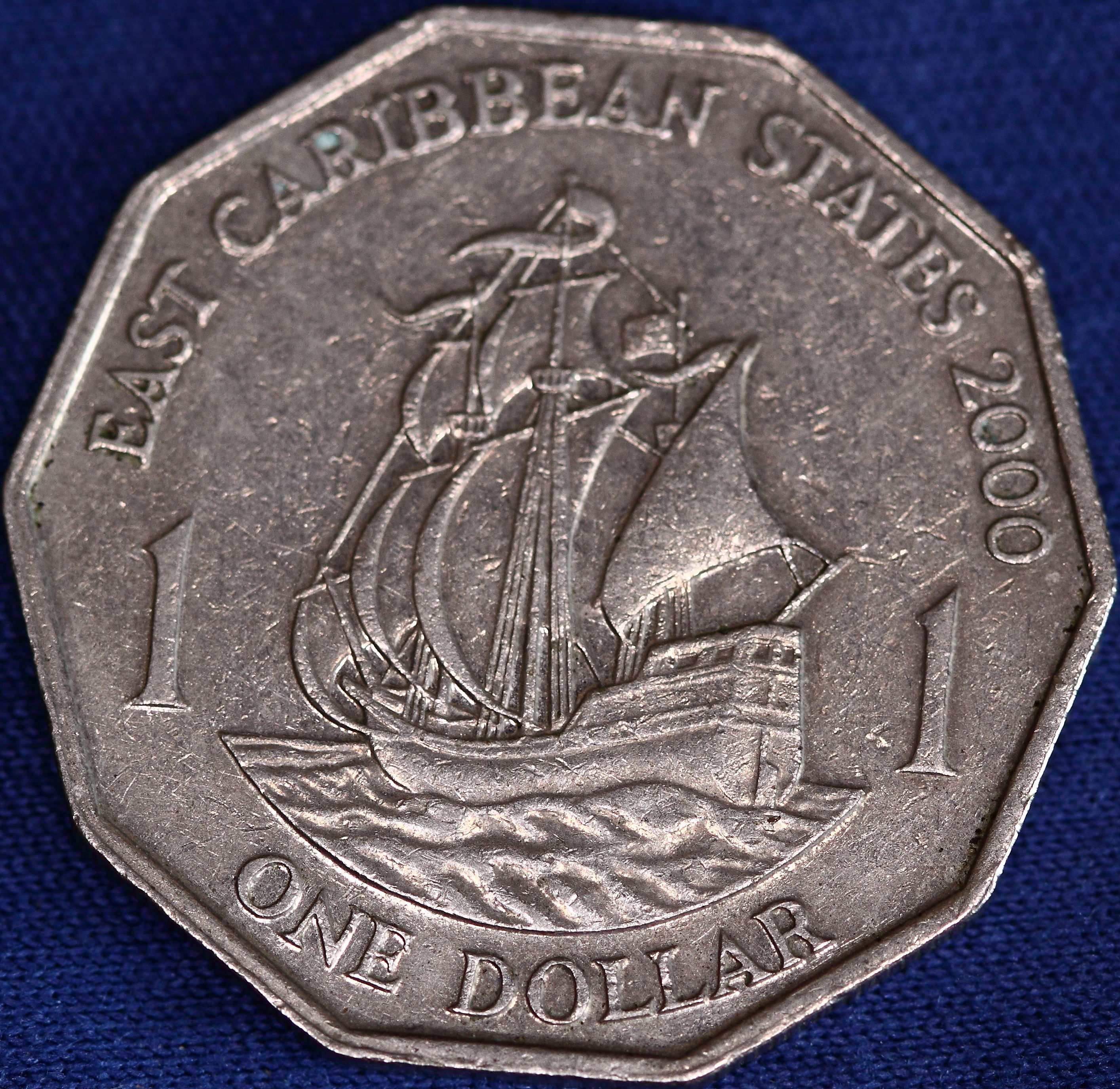 2000 Eastern Caribbean dollar